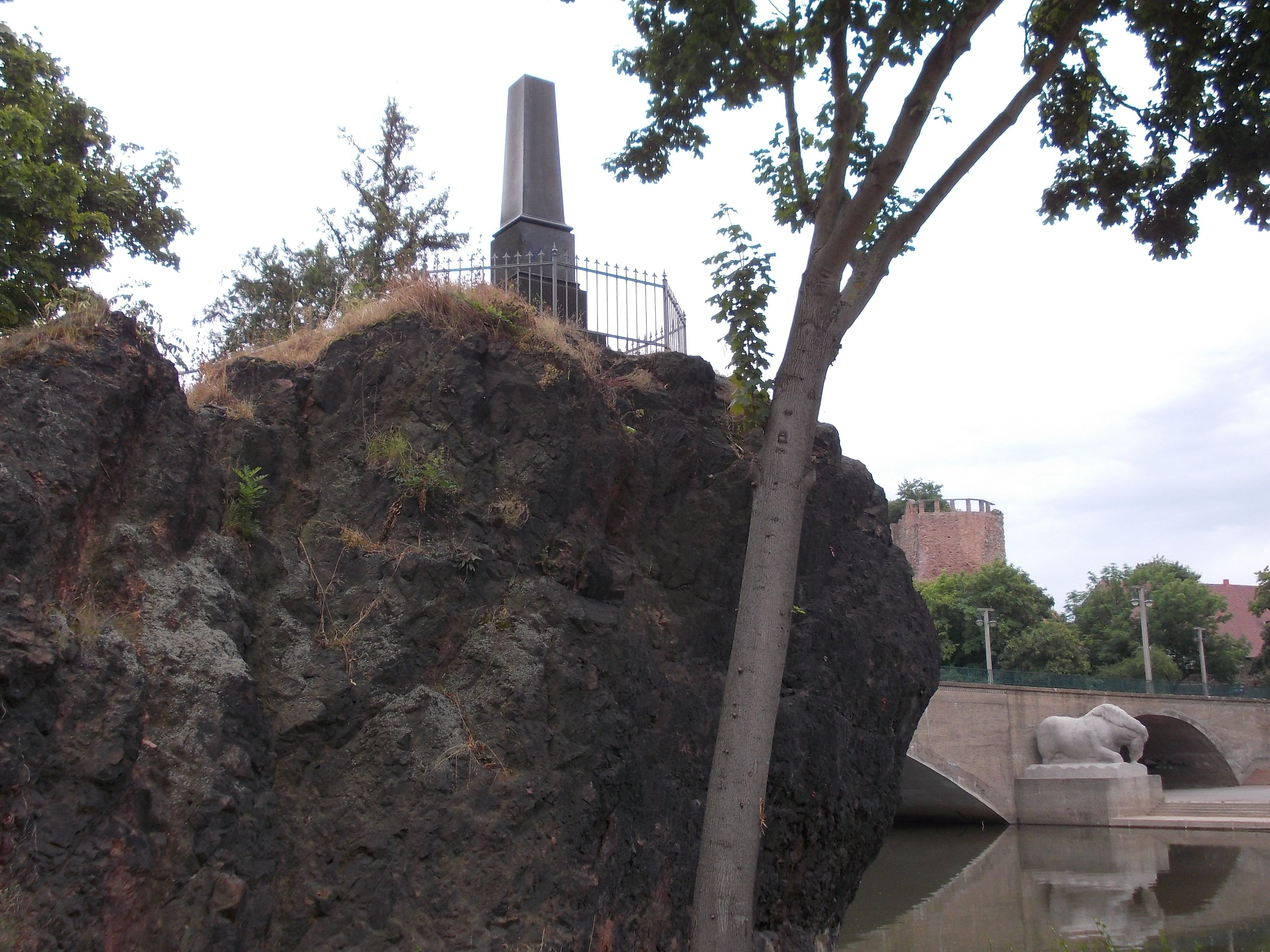 Fährfelsen rock in Kröllwitz (Halle/Saale, Saxony-Anhalt) with memorial to the wars of 1866 and 1870/71